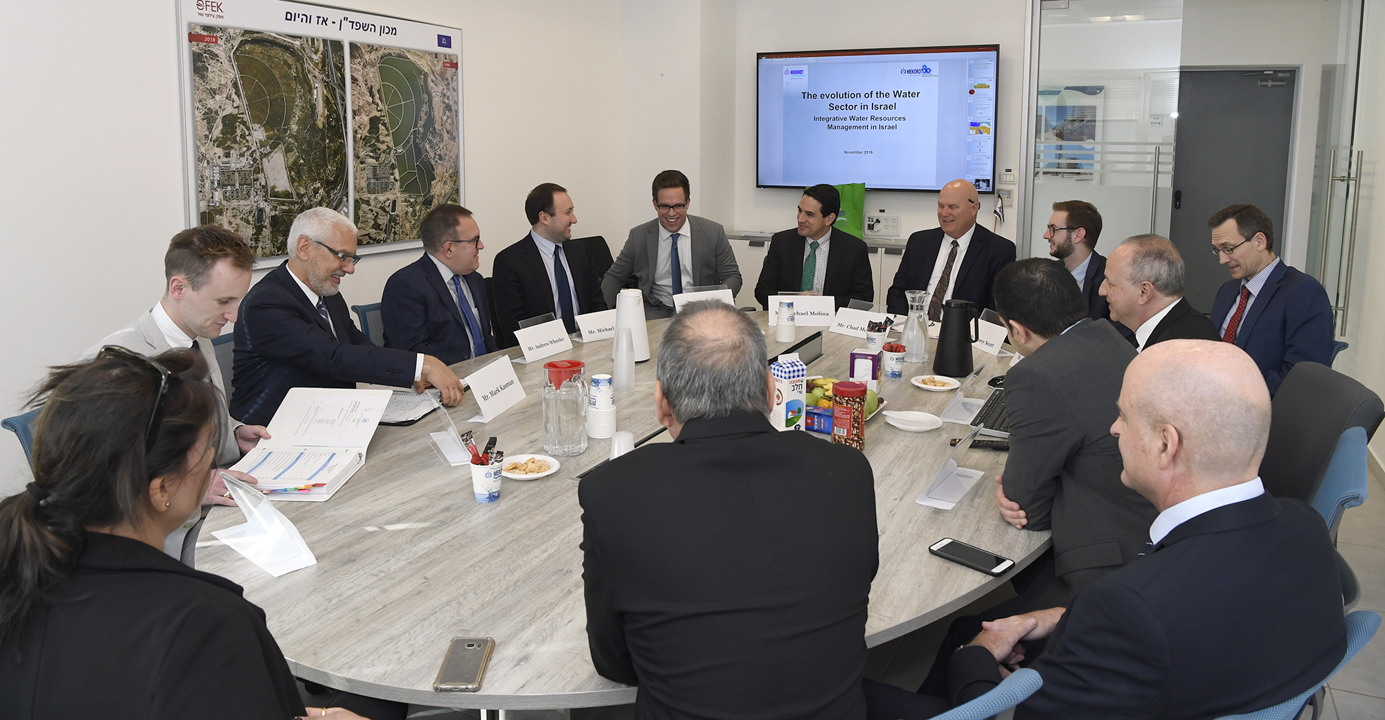 EPA ADMINISTRATOR WHEELER Visit to Israel Nov. 17-19, 2019 Visit the Water Recycling Plant Wastewater Treatment Plant (SHAFDAN) in Rishon Letzion